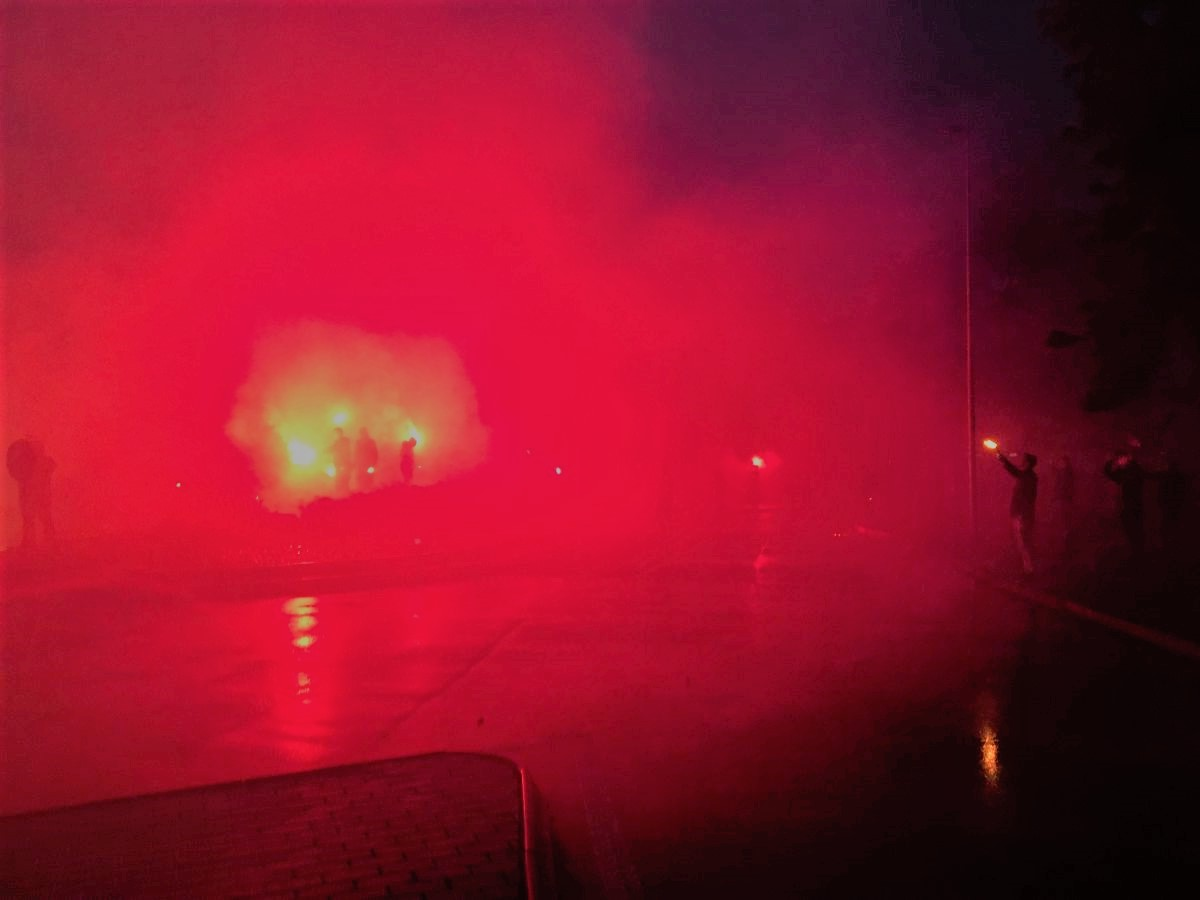 100 torchs for the 100th Anniversary of the Mura Republic (Republic of Prekmurje) in Murska Sobota. Commemoration of football crackers Black gringos in Murska Sobota (2019)